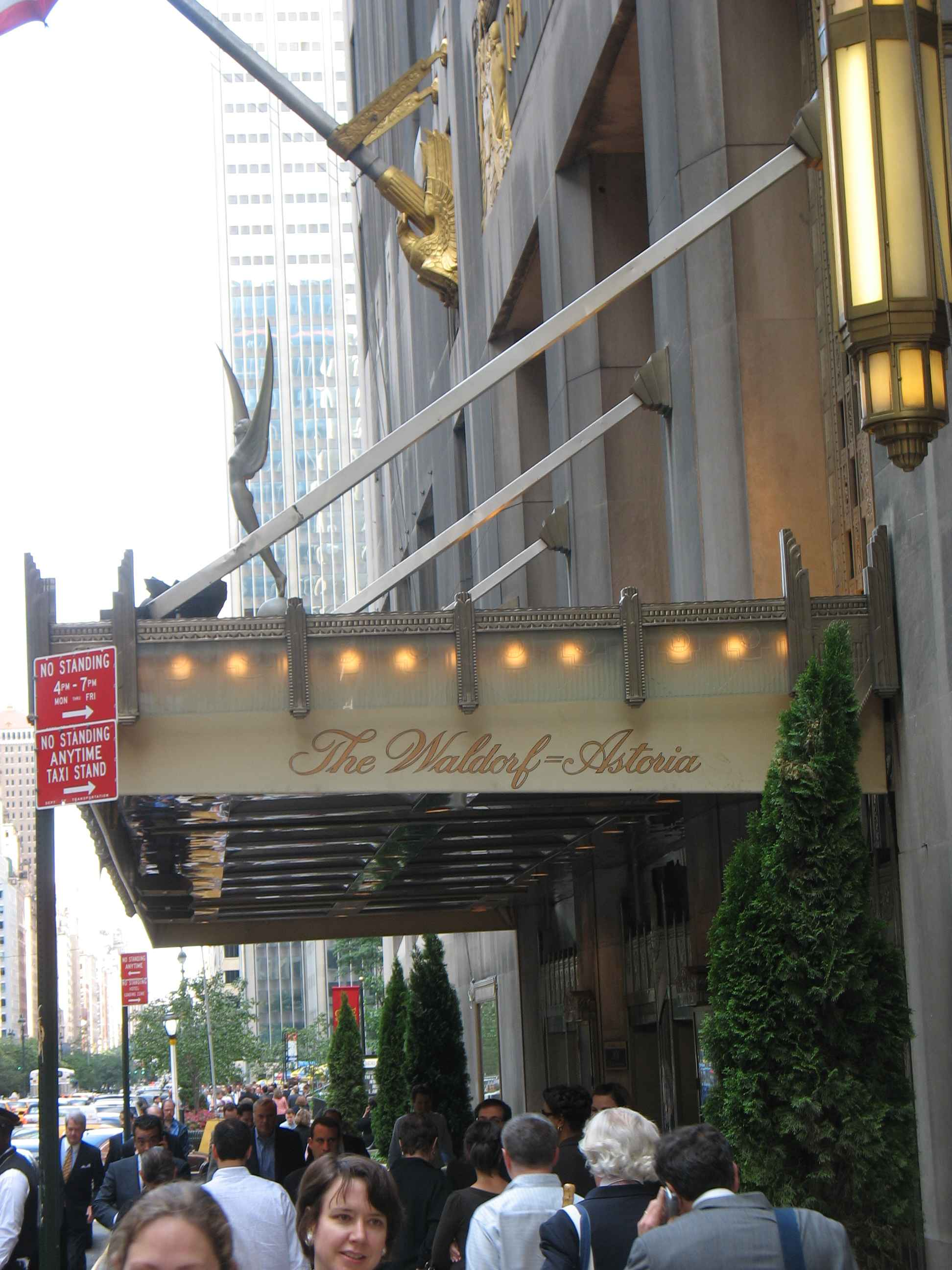 Waldorf=Astoria Hotel awning shows the equal sign on the awning. Photo taken by posters in June 2006.